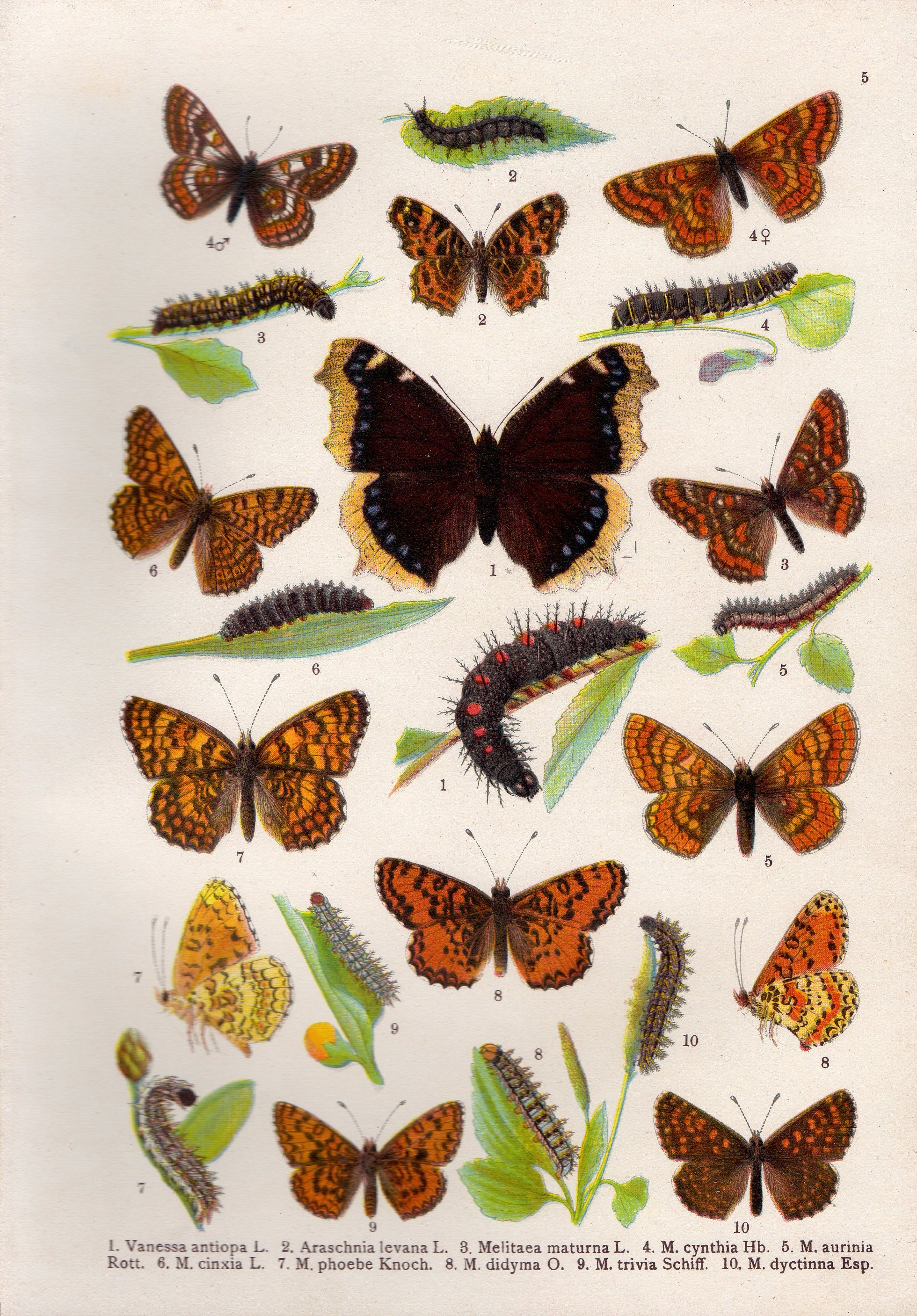 Table of Lepidoptera. From Joukl (1862-1910): "Motýlové a housenky střední Evropy" 1910.